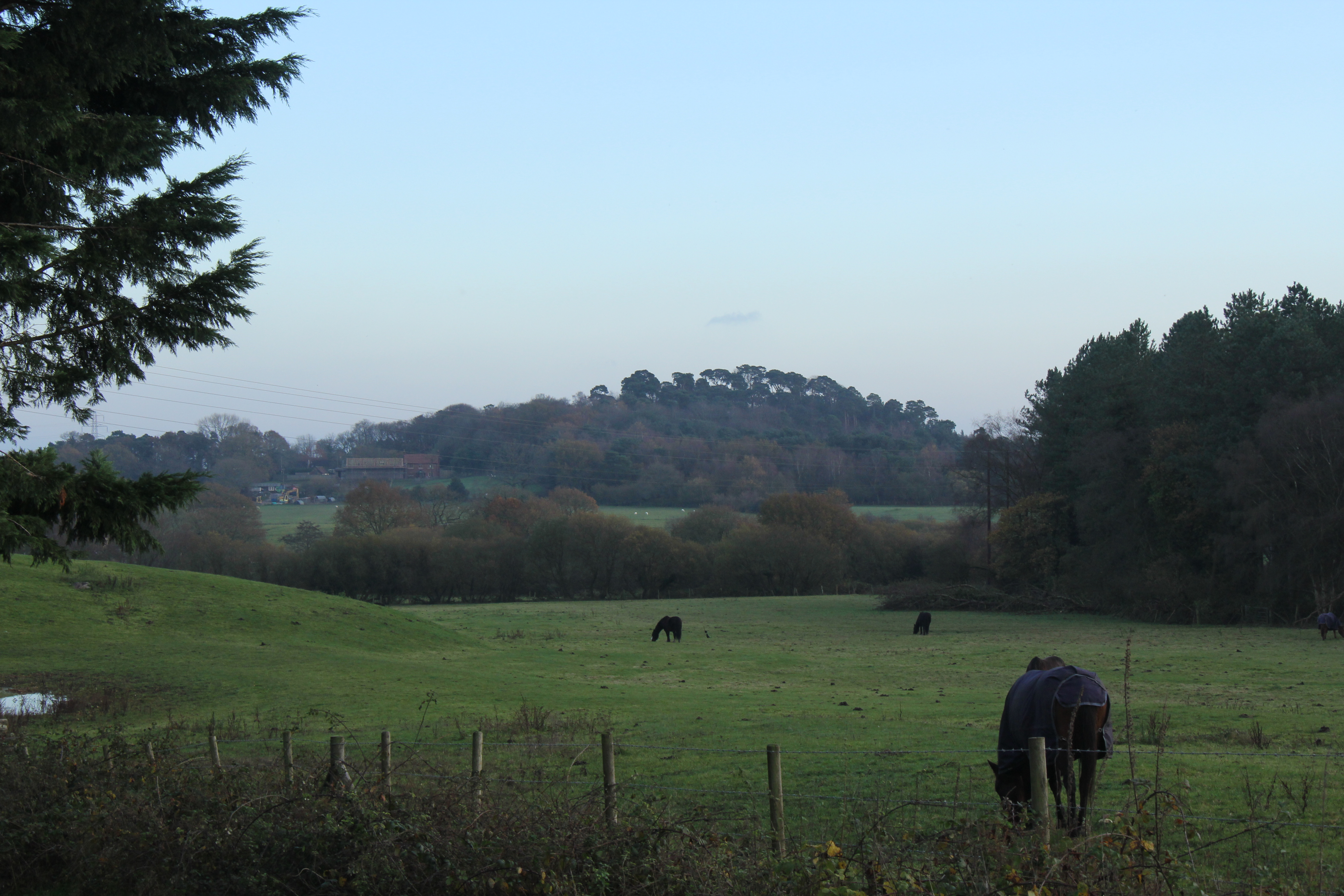 Beacon Hill, Dorset, seen from the public footpath to Rushall Lane to the NNW.